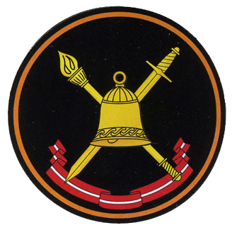 Sleeve patch of the Military Institute of Professional Development for Mobilization bodies of the Russian Armed Forces (VIPKSMO)